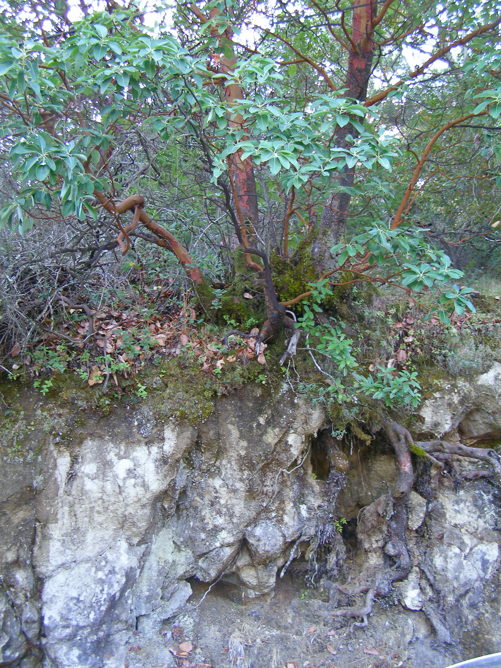 madrone on rock on sonoma mtn